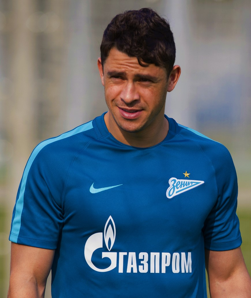 26.07.2016. Россия, Санкт-Петербург. Новый игрок «Зенита» Жулиано приступил к занятиям в Удельном парке. На снимке: Жулиано, полузащитник ФК «Зенит».